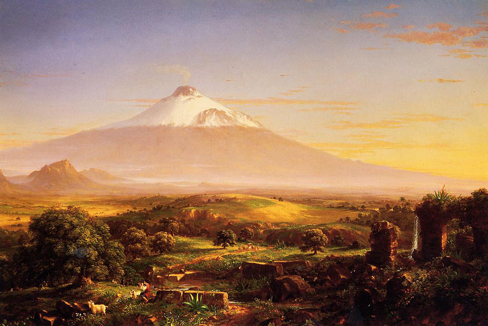 Mount Aetna from Taormina 1842 by Thomas Cole.